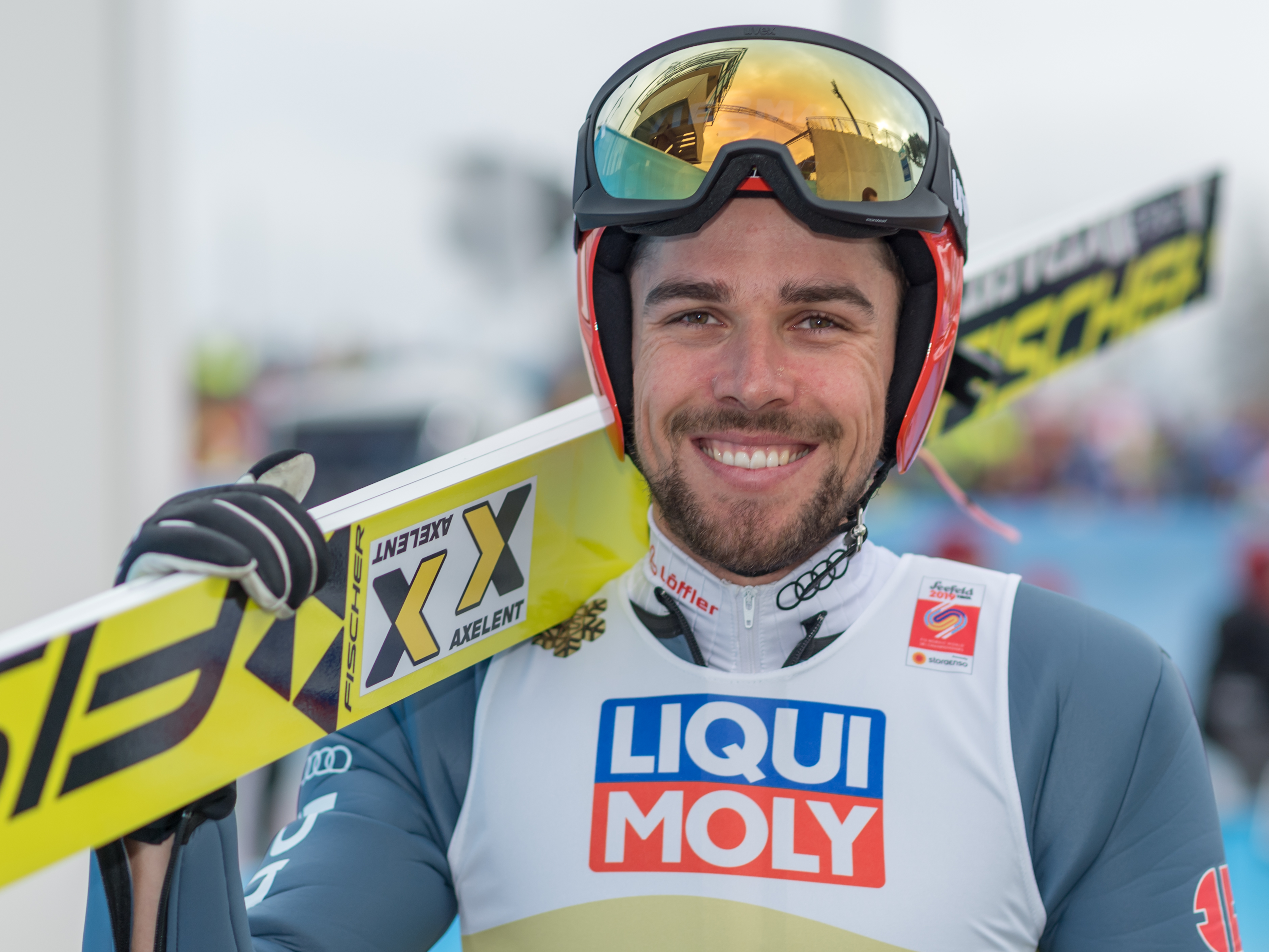 Seefeld, March 2, 2019: FIS Nordic World Ski Championships, Nordic Combined Team HS 109.